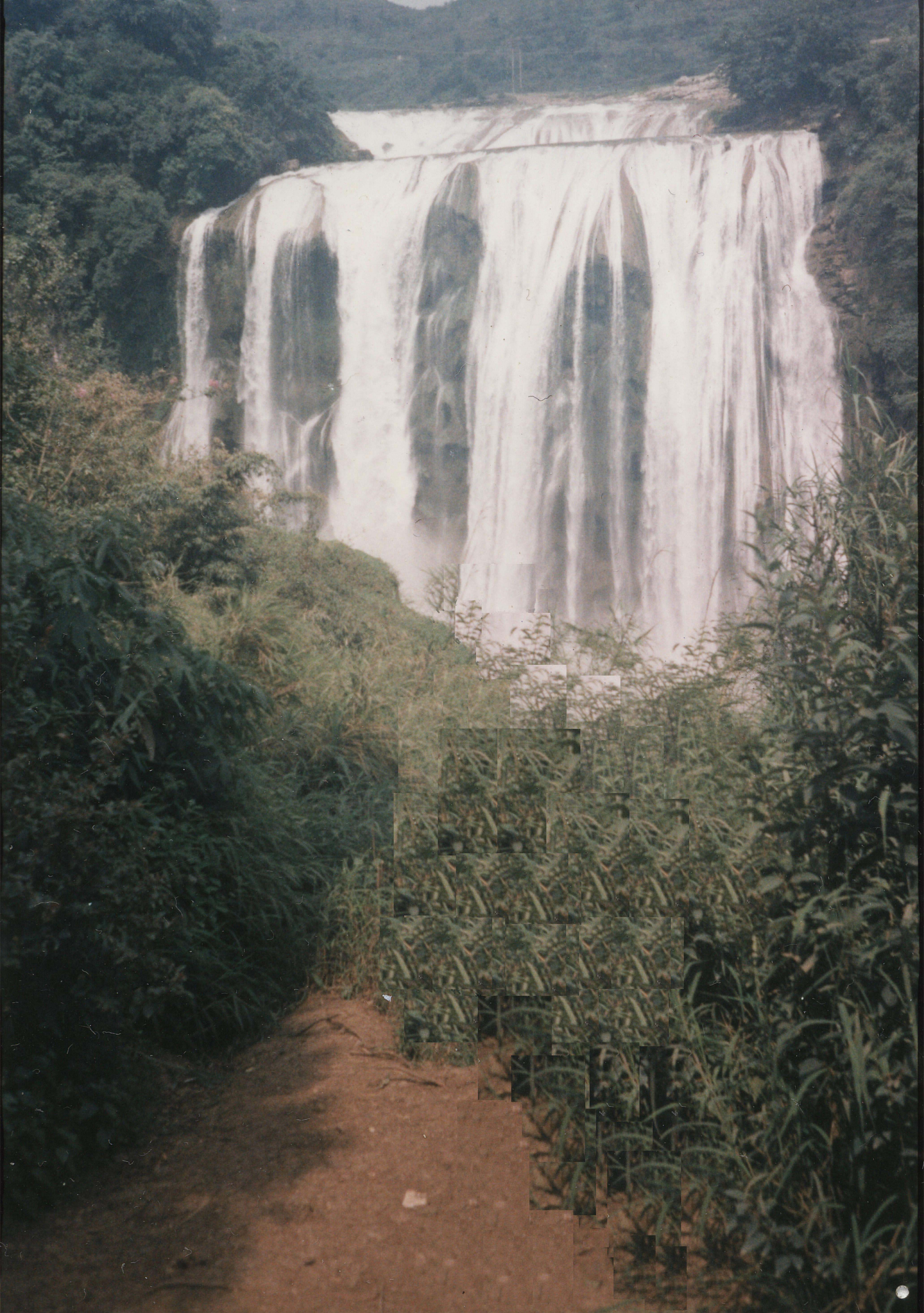 Hungguoshu Waterfall in Guizhou, China